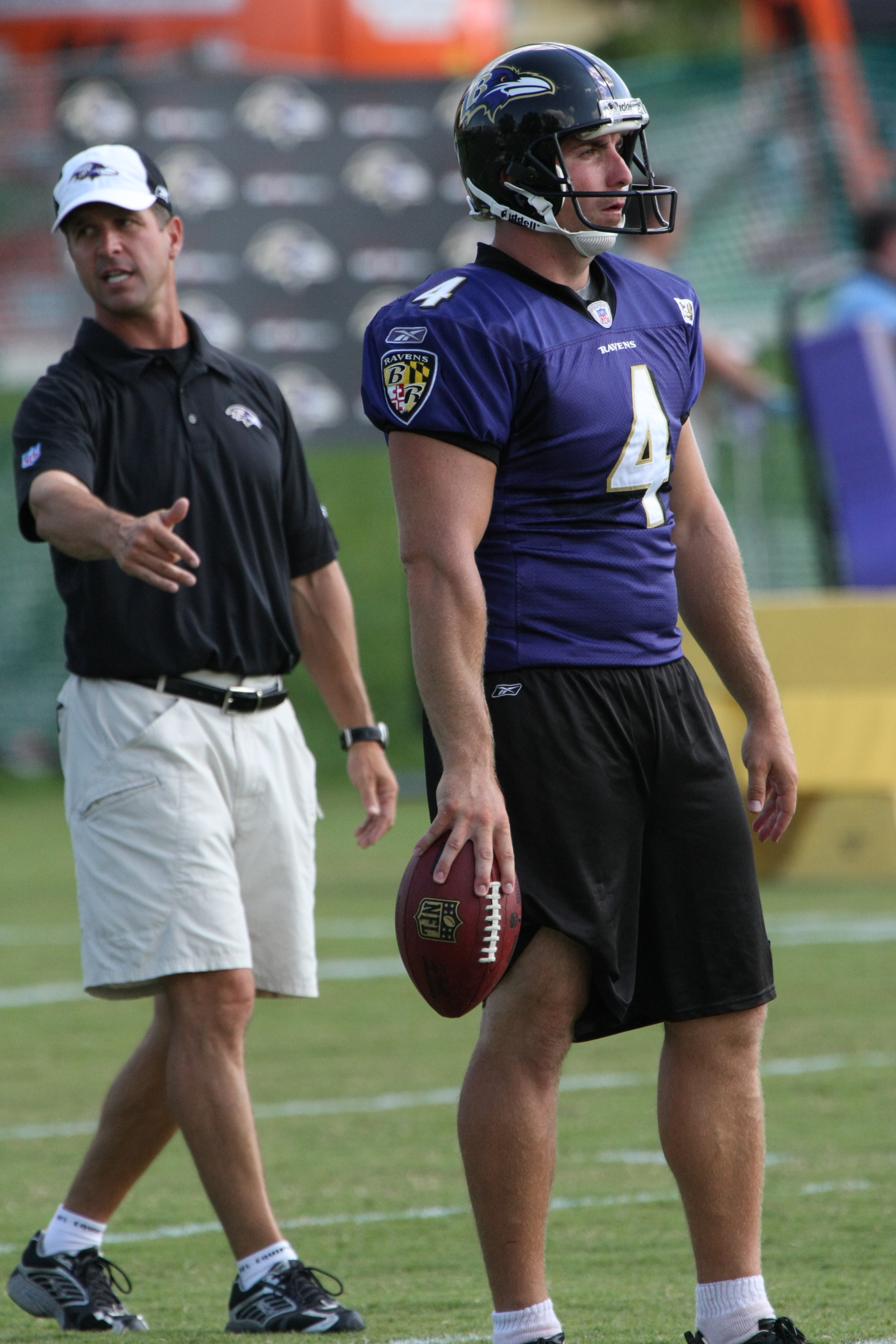 A picture of John Harbaugh and Sam Koch.